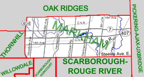 Map of the Markham electoral district (1997-2004)